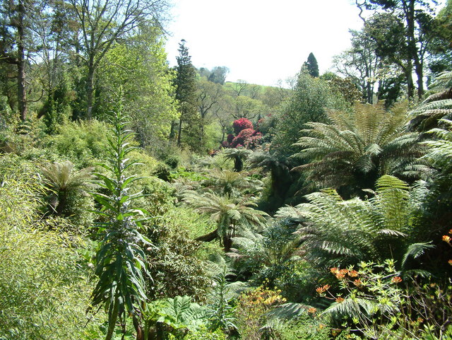 The Lost Gardens of Heligan.